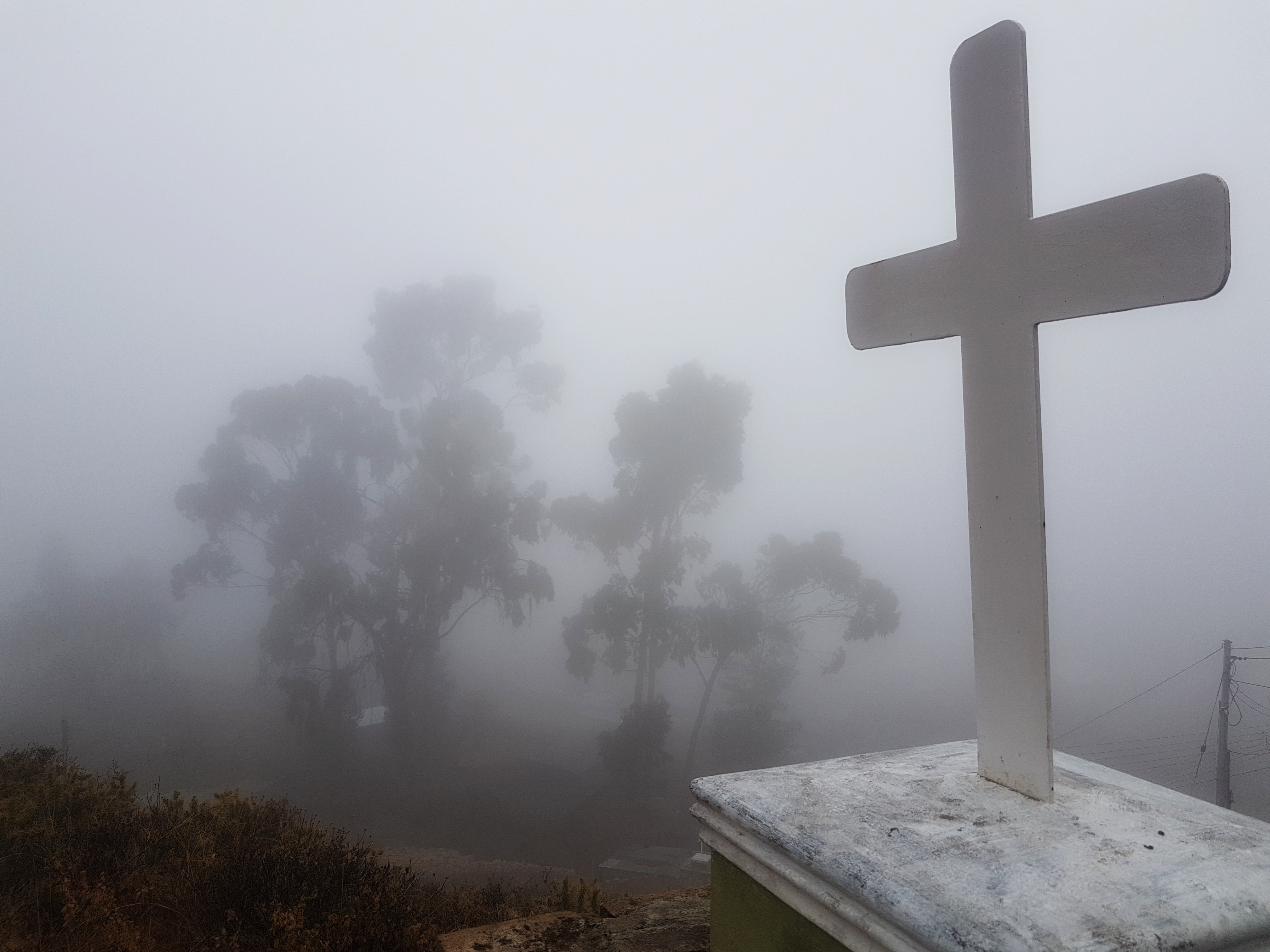 Via Crucis in Candarave